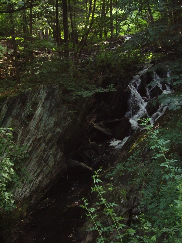 Photo of summer camp, Camp Rising Sun, in Red Hook, New York